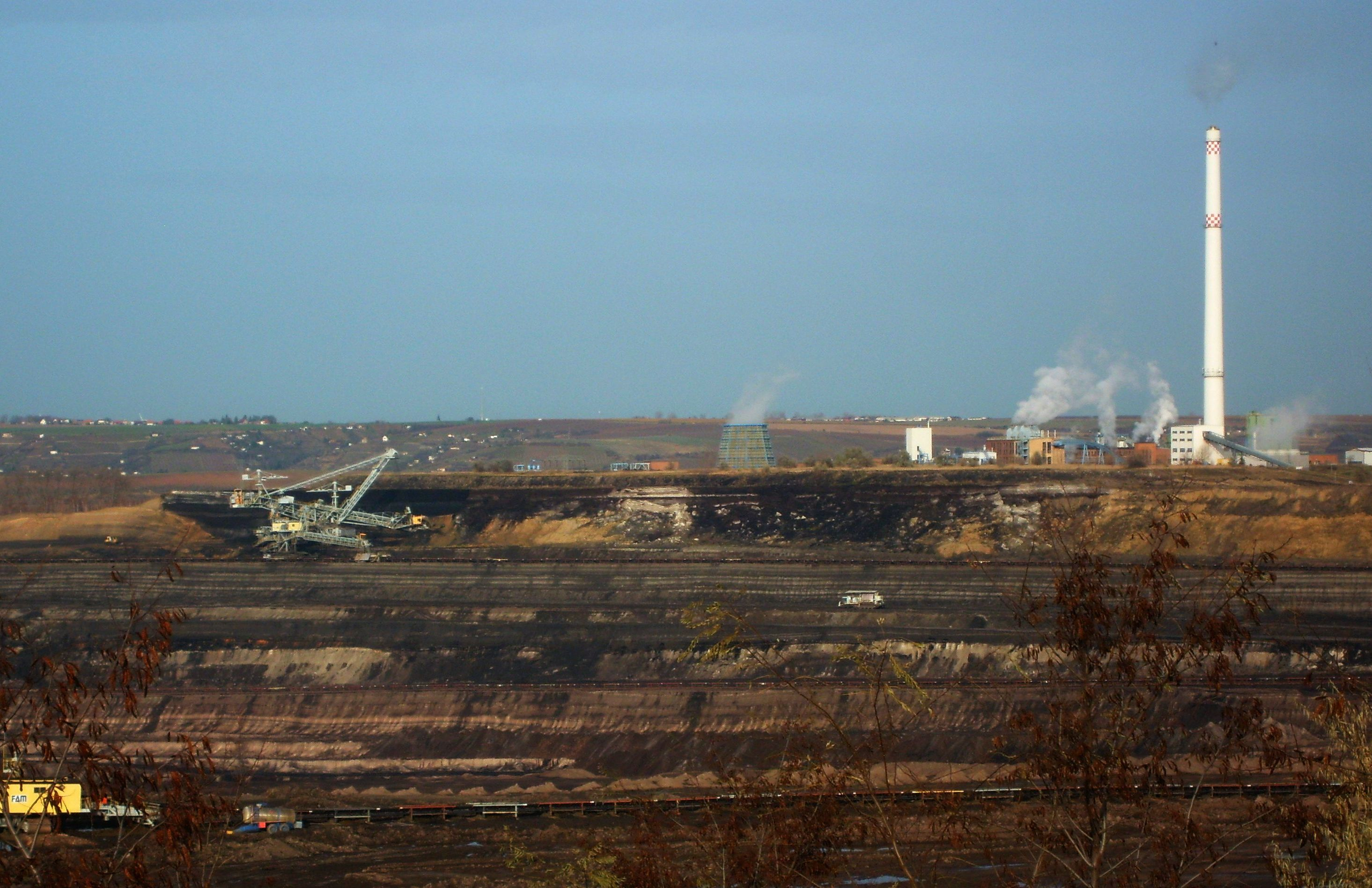 Opencast Romonta Amdorf Lignite Mine in Saxony-Anhalt (Mansfeld-Südharz)